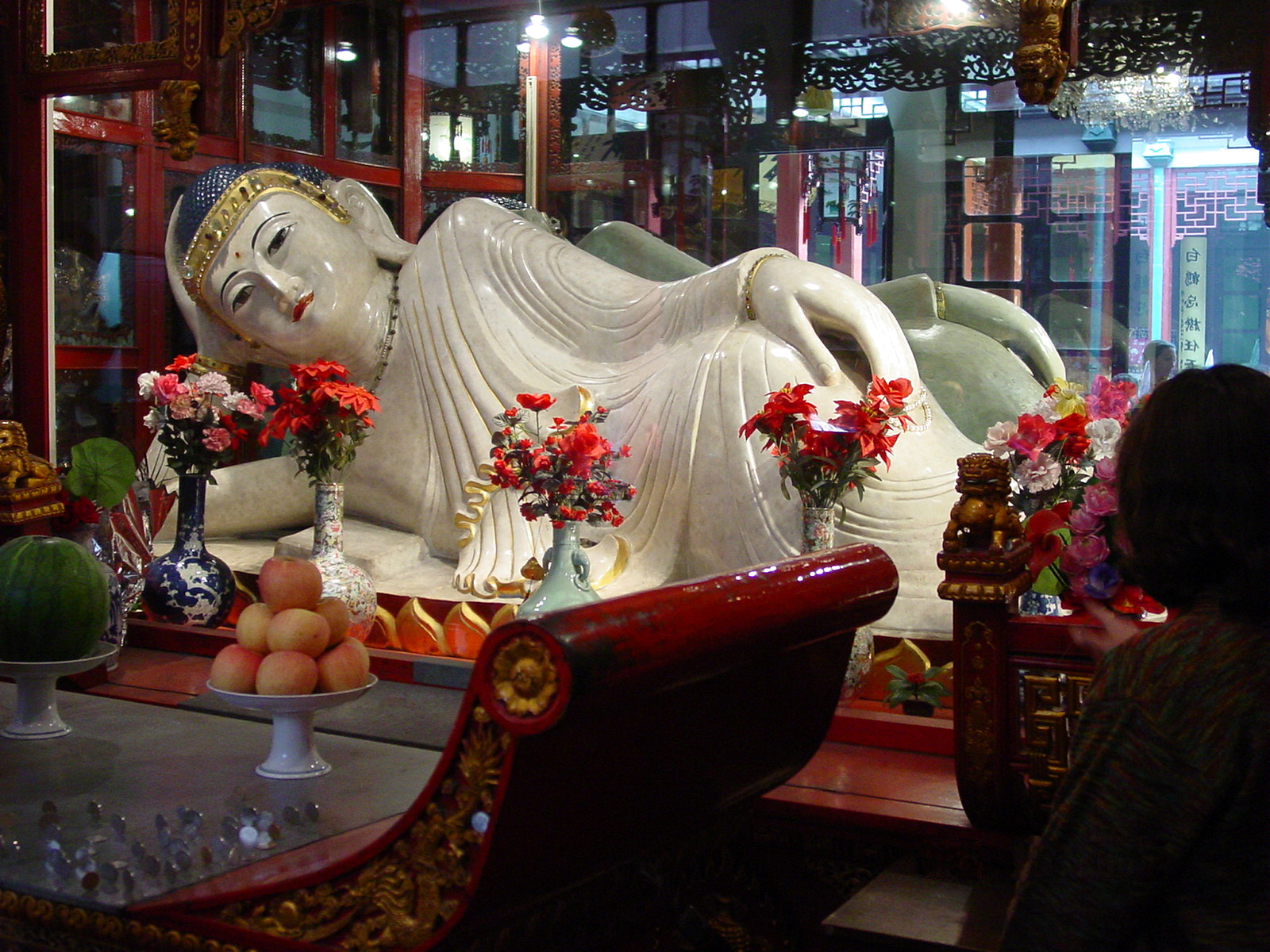 A reclining Buddha at the Jade Buddha Temple in Shanghai China